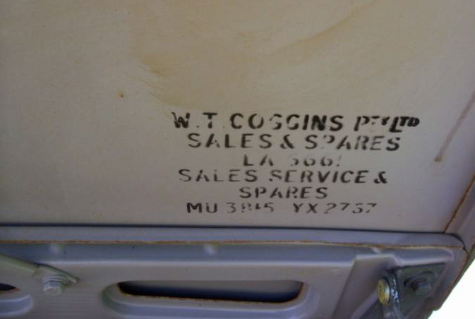 1960–1961 Holden FB under bonnet dealer logo (W.T. Coscins Pty Ltd), photographed in Australia.